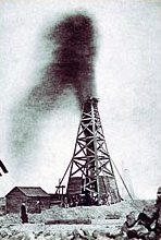 Seyid Mirbabayev's well "Bala shoranlig"